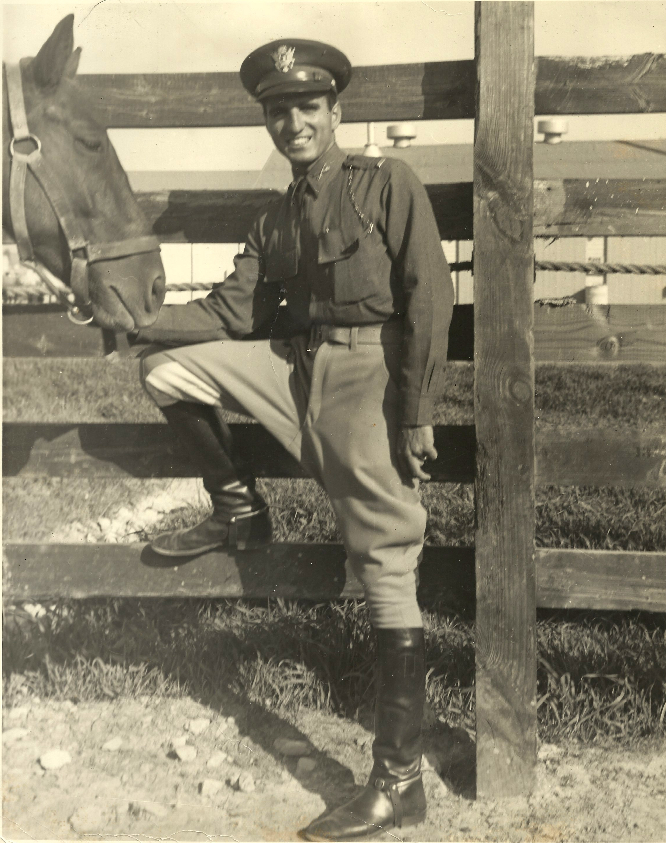 Picture of Arthur Korf taken at Fort Howze, TX